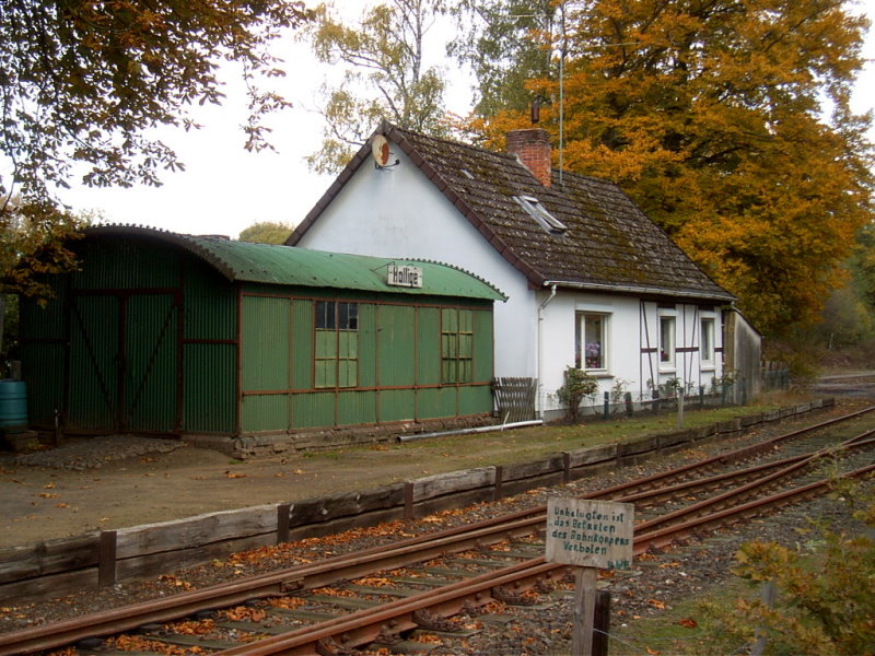 Hollige Station